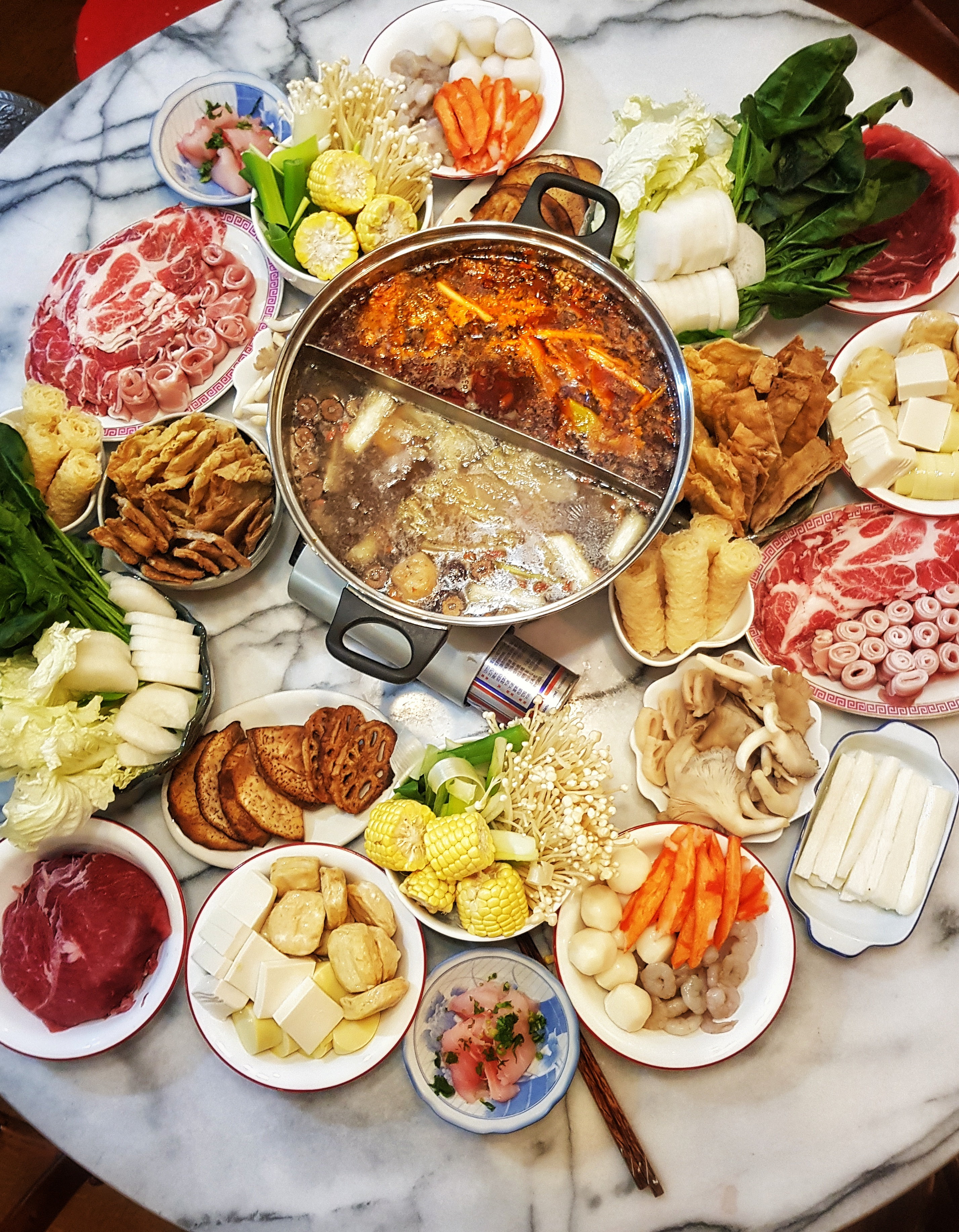 this is a homemade Chongqing hot pot, with ingredients such as beef, fish boll, etc